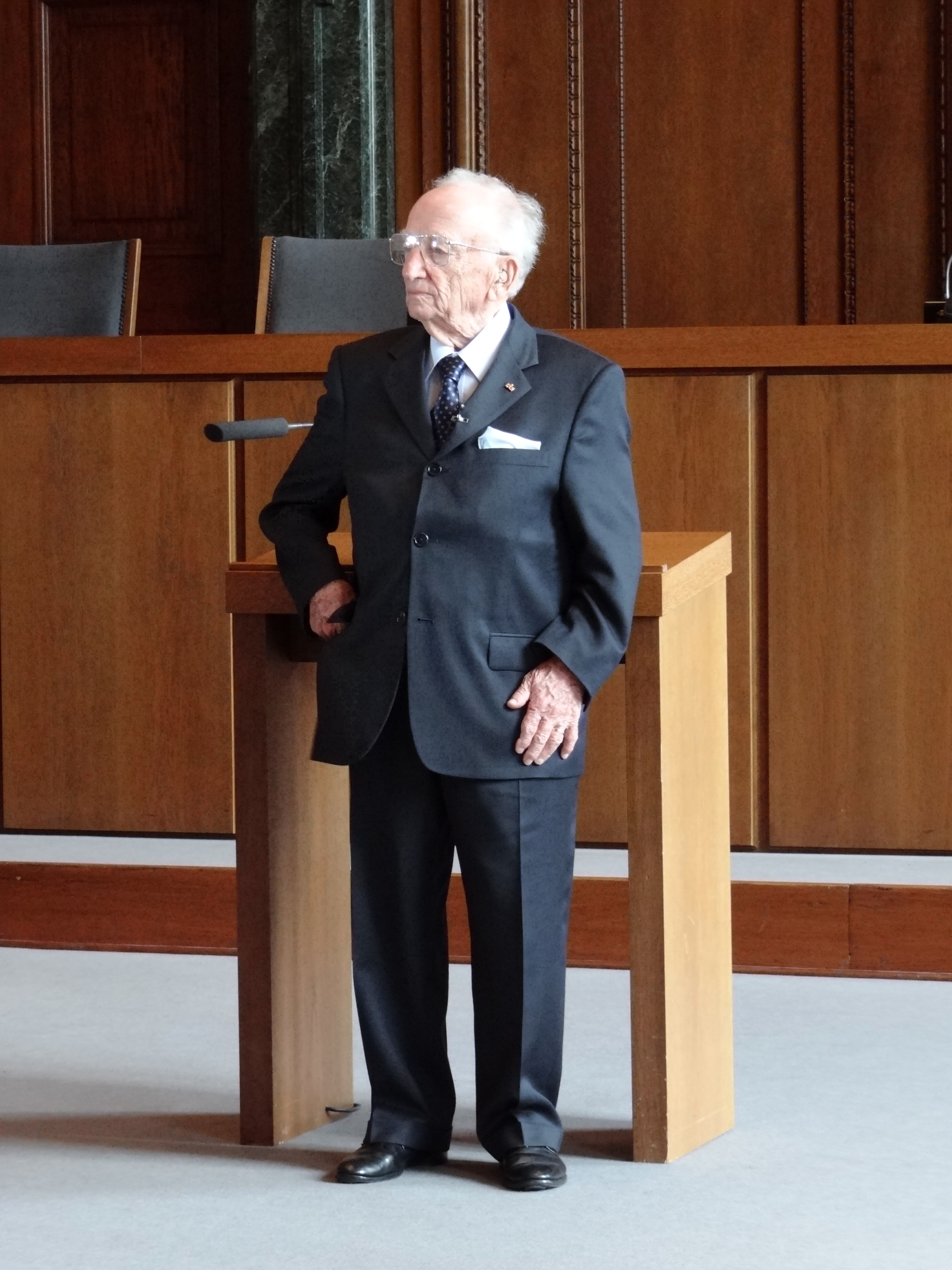 Benjamin Ferencz - Chief Prosecutor in 1947 Einsatzgruppen Trial - In Courtroom 600 Where Nuremberg Trials Were Held - Palace of Justice - Nuremberg-Nurnberg - Germany - 01